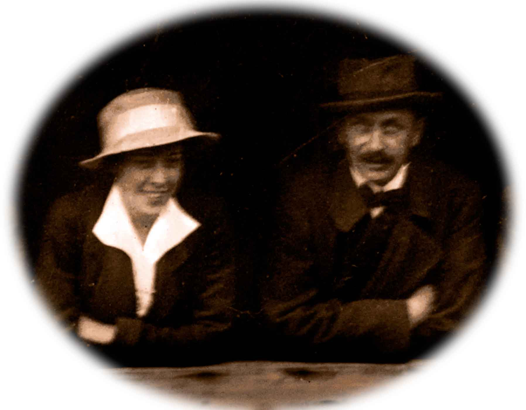 Kitty Linder and Gustaf Mannerheim on hanting tour in Norway 1918